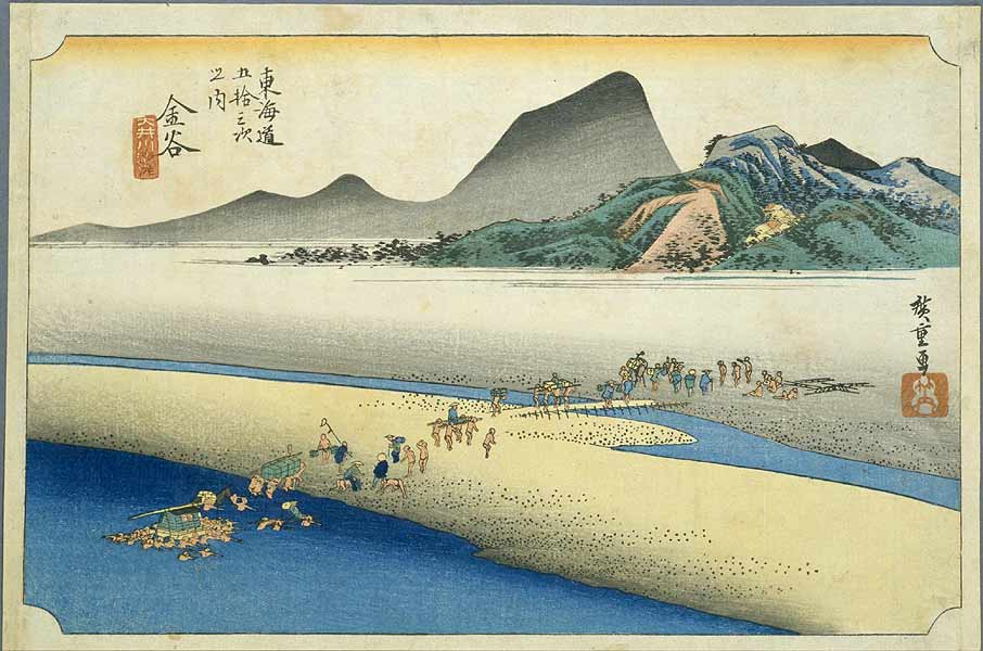 Kanaya on the Tokaido, ukiyo-e prints by Hiroshige